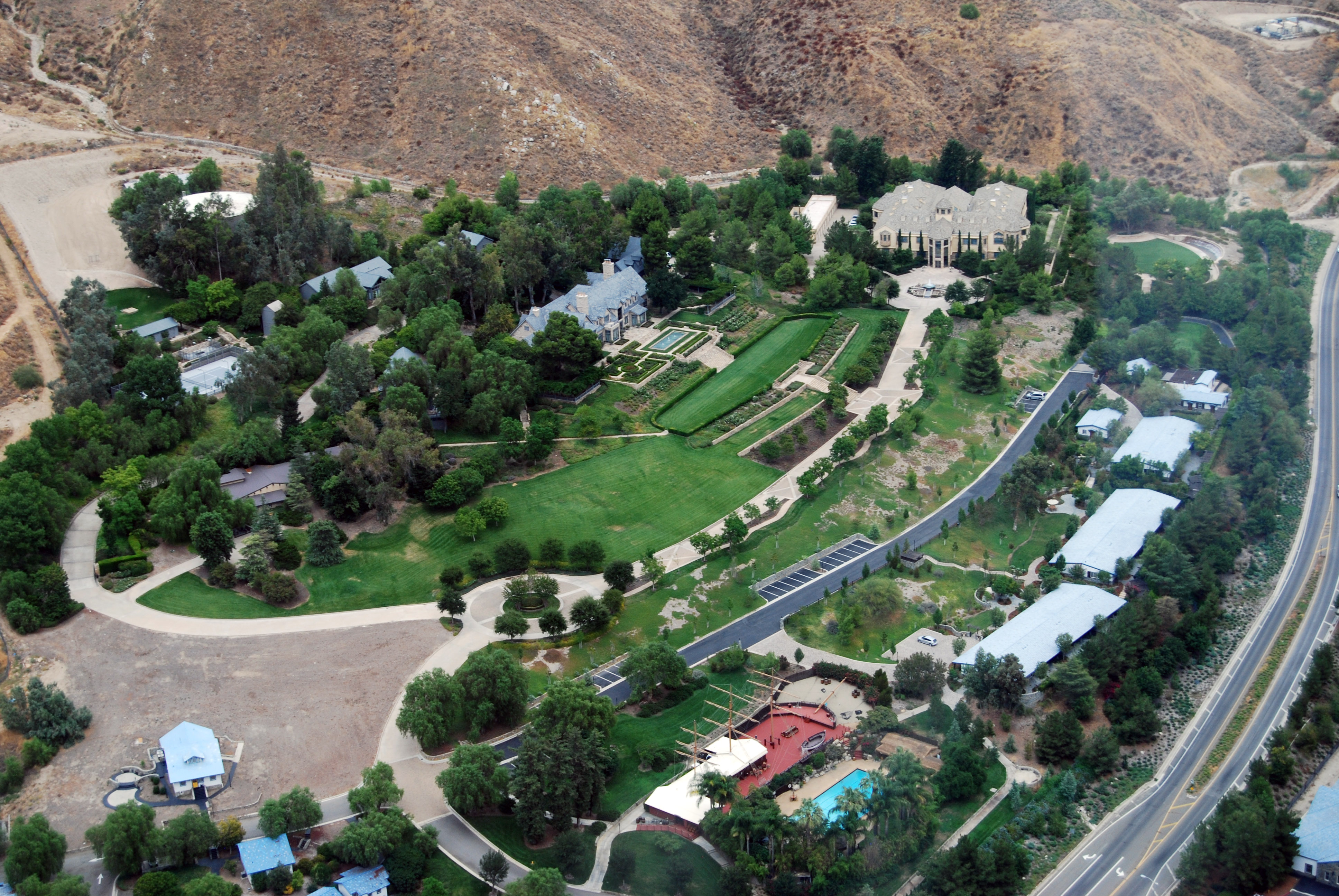 North side of Gold Base, Gilman Hot Springs, California, showing the RTC Building (top right), Bonnie View (top center), the Villas (right) and the Star of California (bottom)